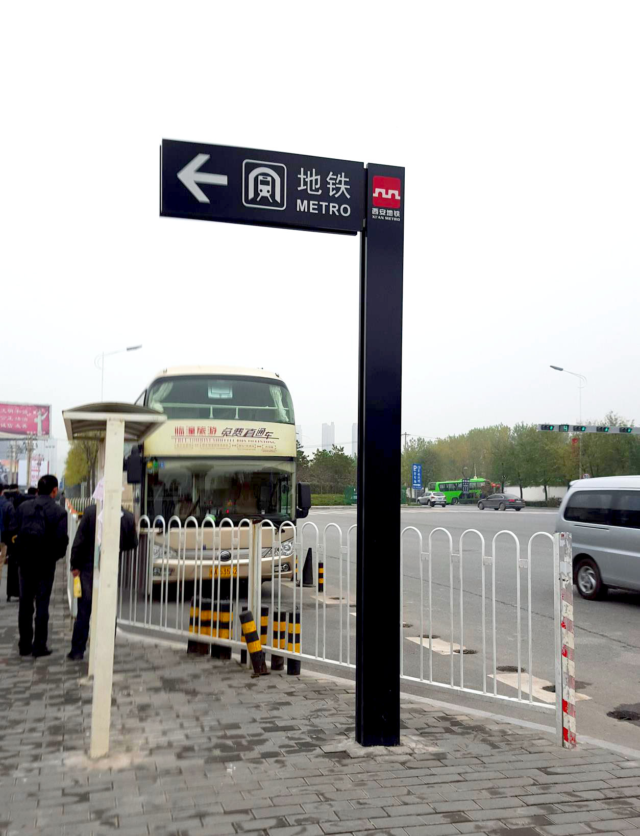 The Sign of Xi'an Metro